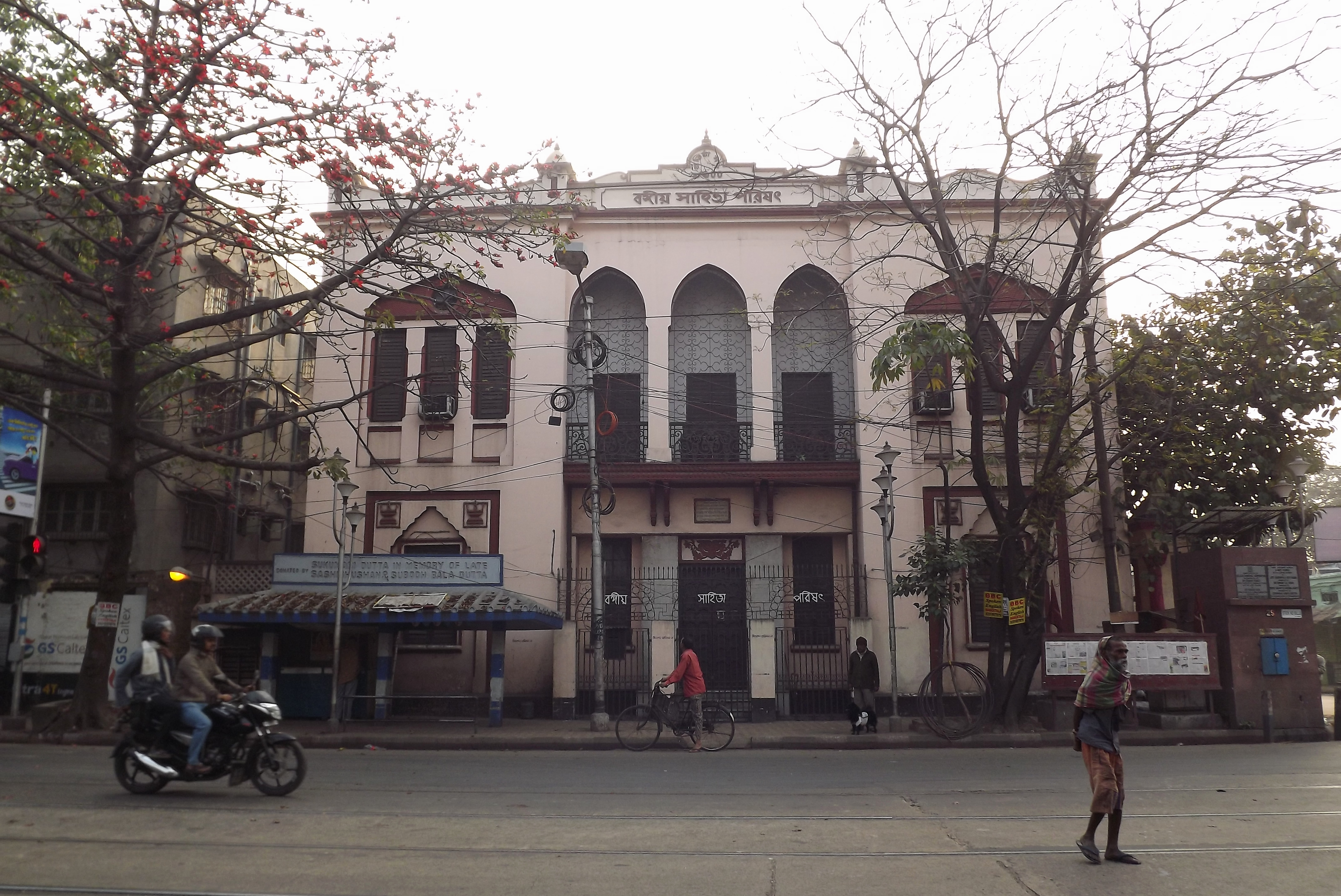 Bangiya Sahitya Parishad , Kolkata (Calcutta) , West Bengal , India